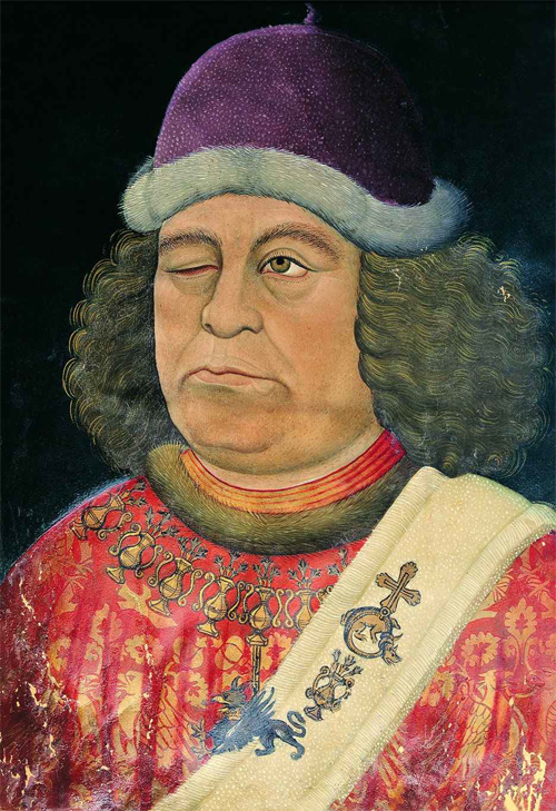 Portrait in the Innsbruck manuscript of 1432 (Liederhandschrift B)